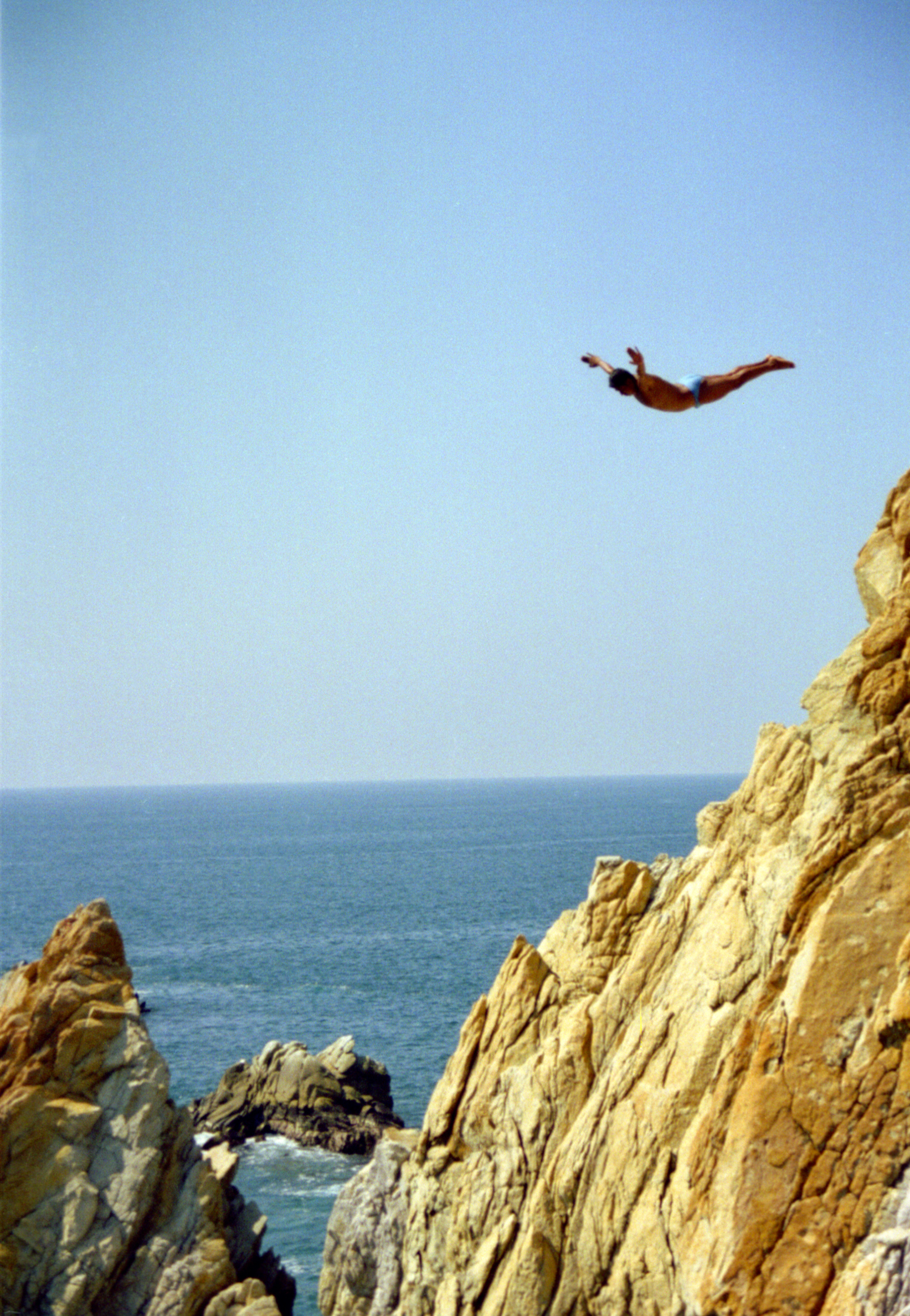 A cliff diver falling 45 meters in Acapulco, Mexico